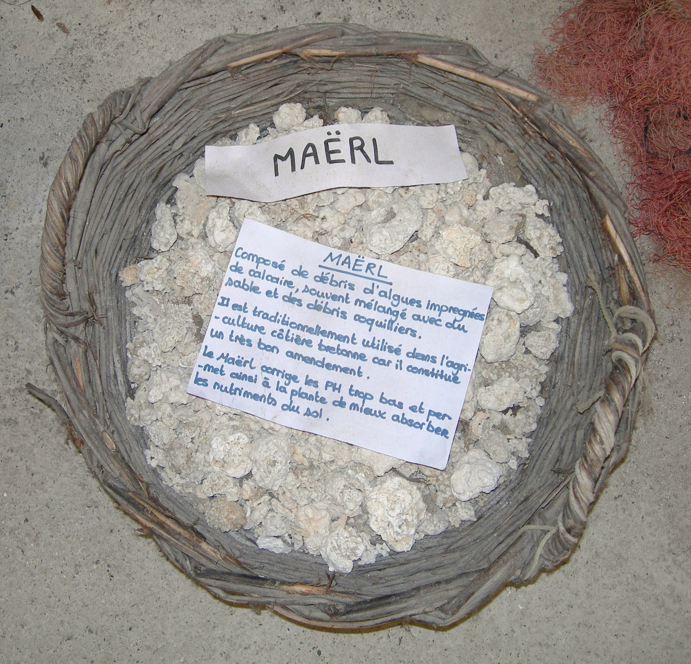 Maerl (Lanildut, France)